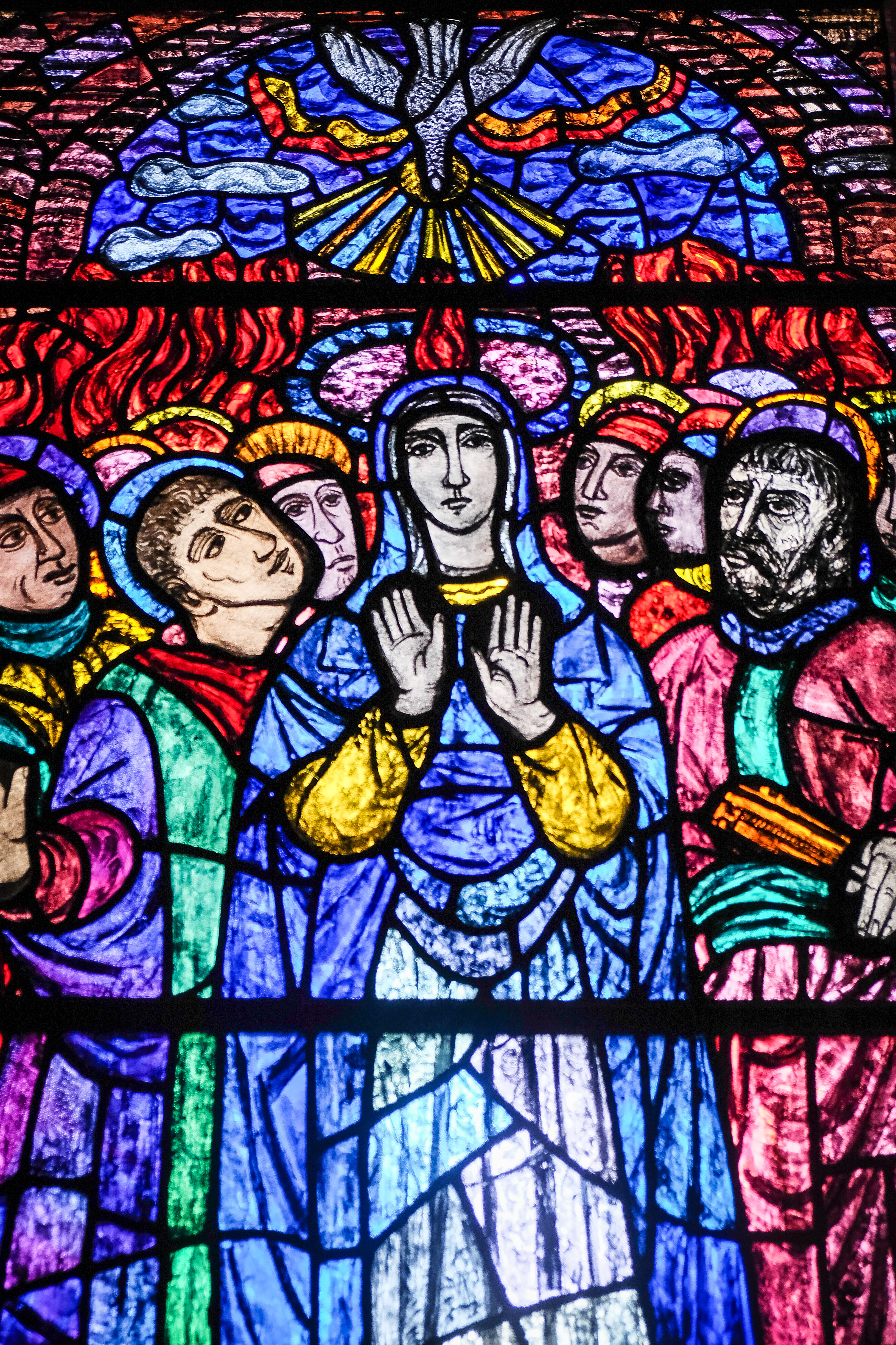 Stained-glass window designed by Evie Hone in the chapel at the Jesuit Manresa Spirituality Centre in Dublin.